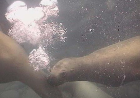 Steller Sea Lion releasing air underwater (Eumetopias jubatus)